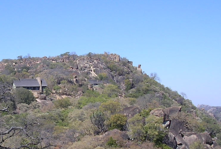 Lodges at Maleme Rest Camp, Matobo National Park, Zimbabwe